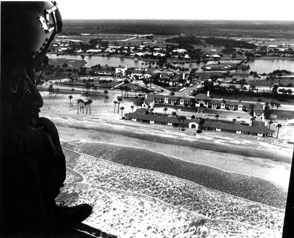 Aerial view of Ponte Vedra Beach, Florida, after Hurricane Dora in 1964